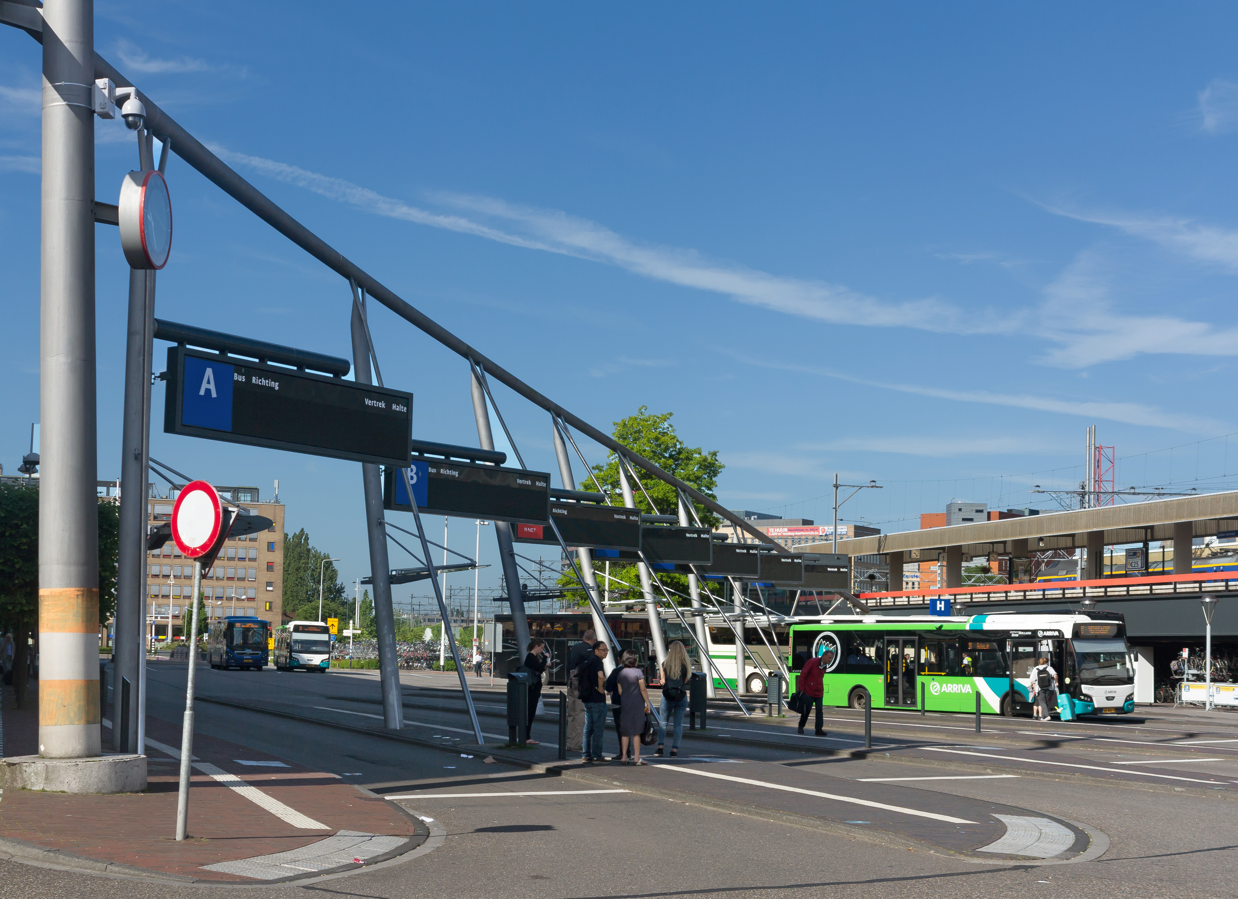 Leiden, central bus station